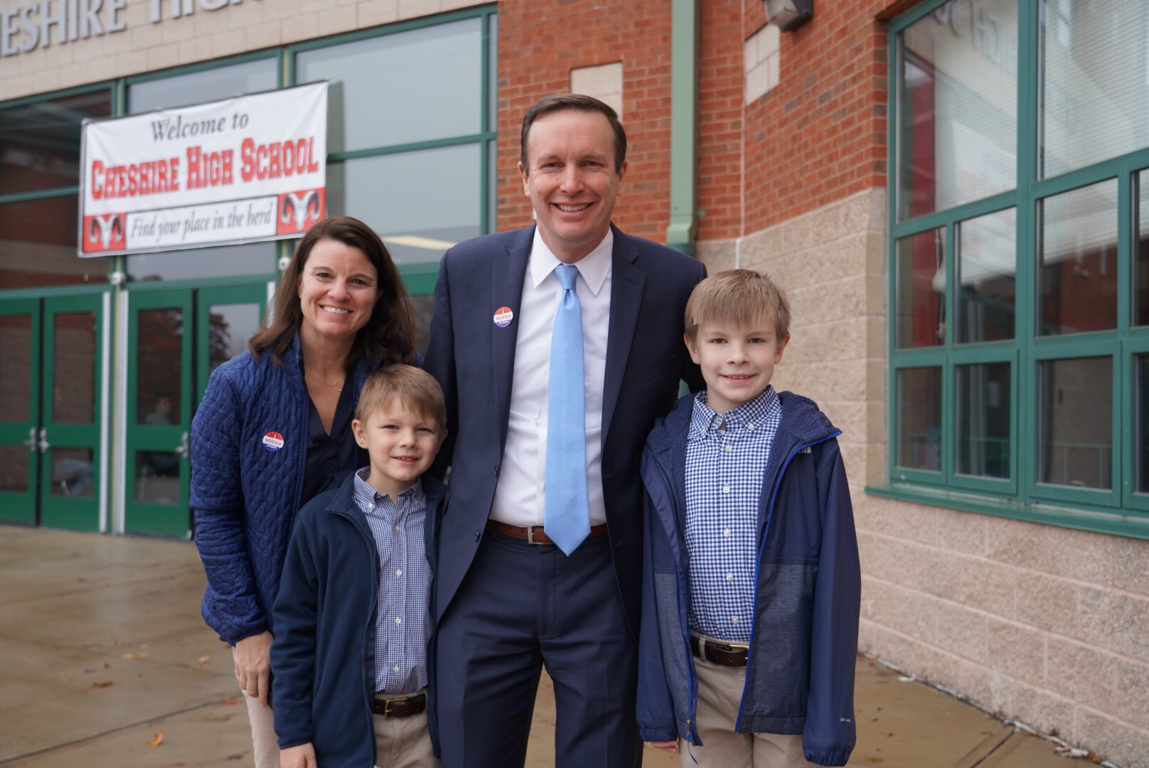 Cathy and I just voted (with an assist from the boys) at our polling place in Cheshire. Have you made a #plantovote yet? If you need help figuring it out go to No excuses!!